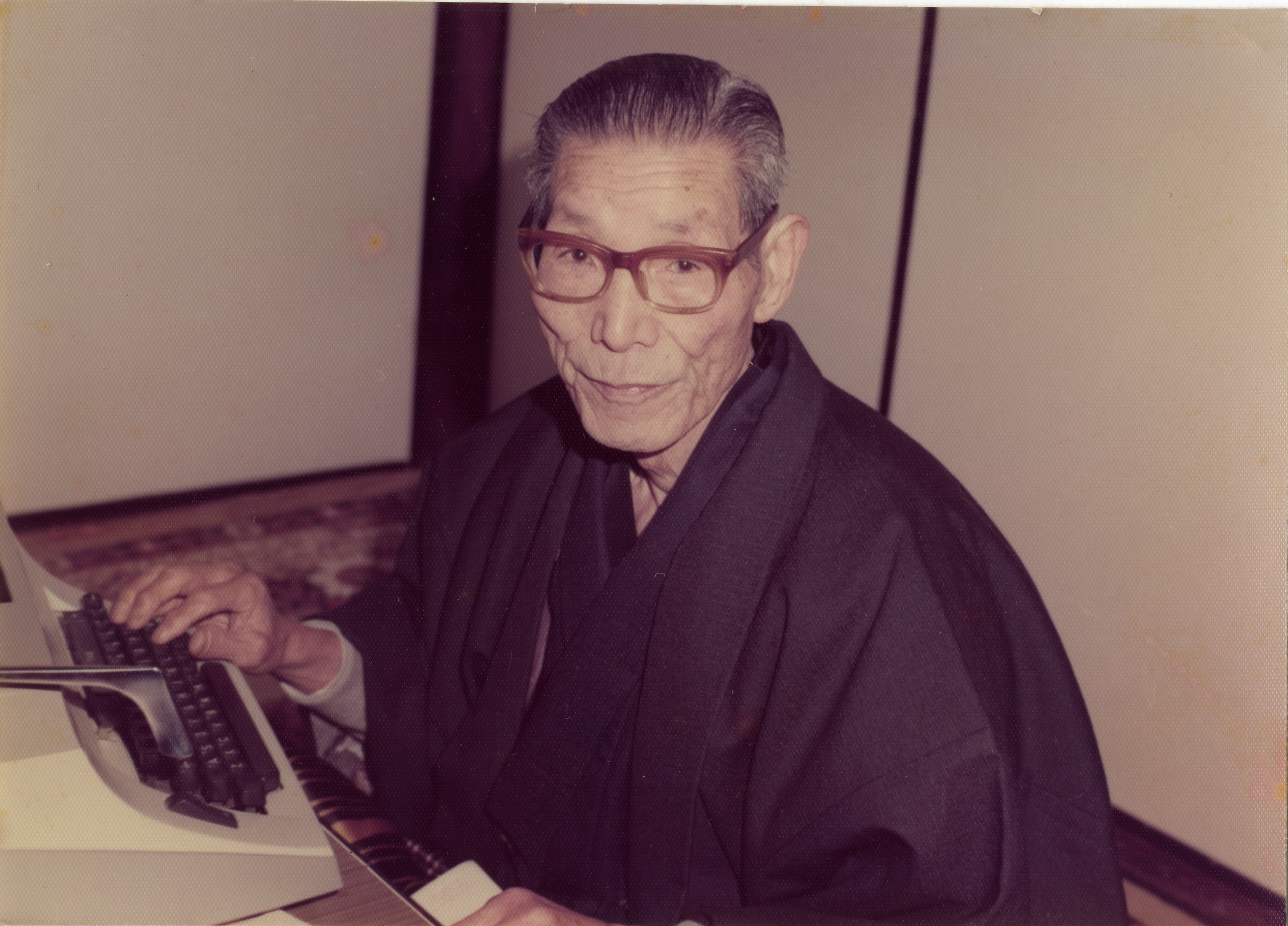 Kinoshita Iwao (1894-1980), Japanese Shinto-priest, Kojiki researcher, translator. 1976 (Collection W. Michel, Fukuoka)